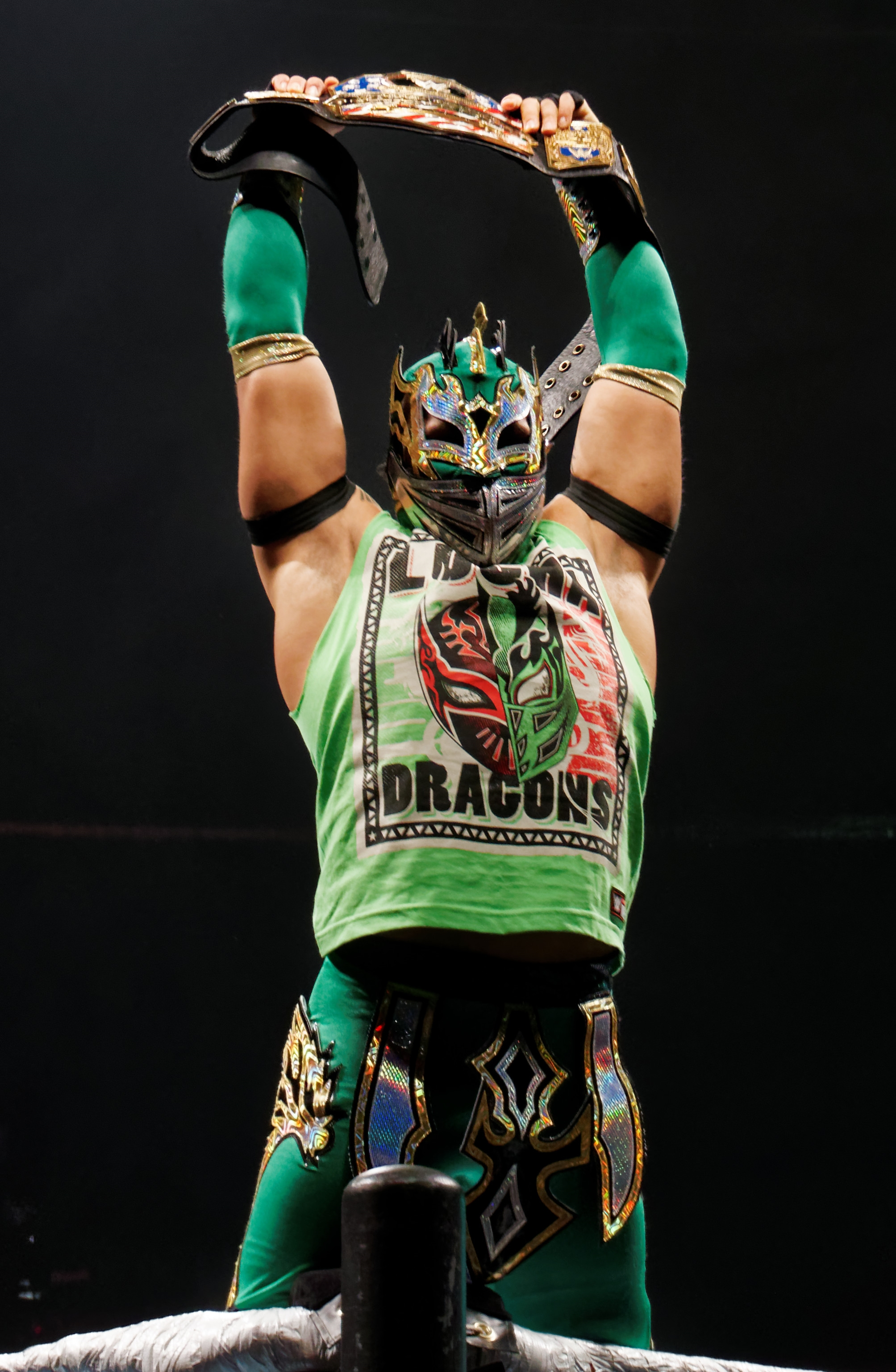 Kalisto in April 2016